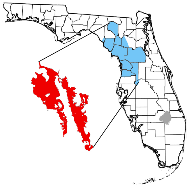 Depiction of the Hawthorn Group in Florida